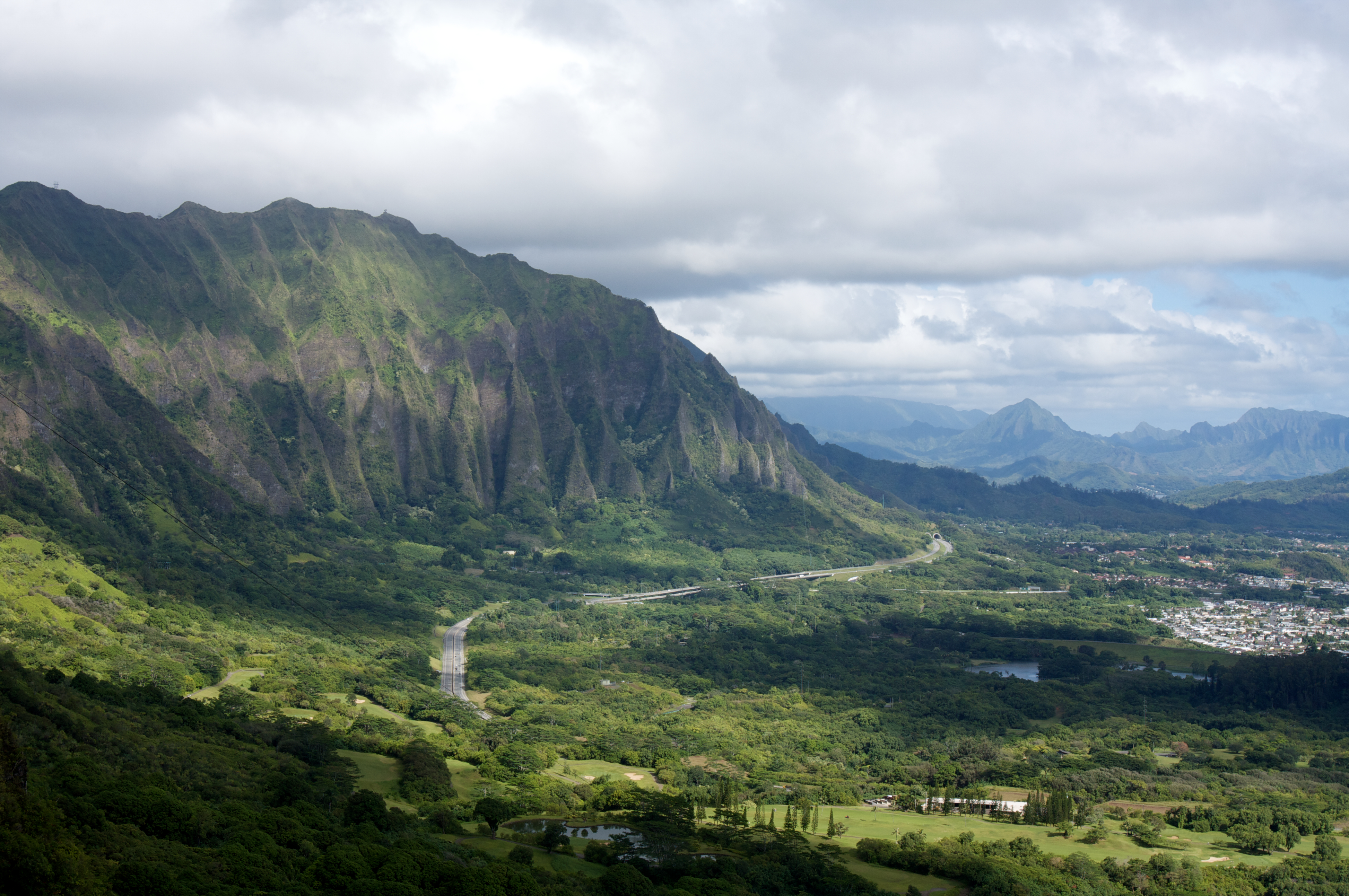 Cliffs of the Koolau Range as seen from the Nuuanu Pali Lookout, Oahu, Hawaii, USA